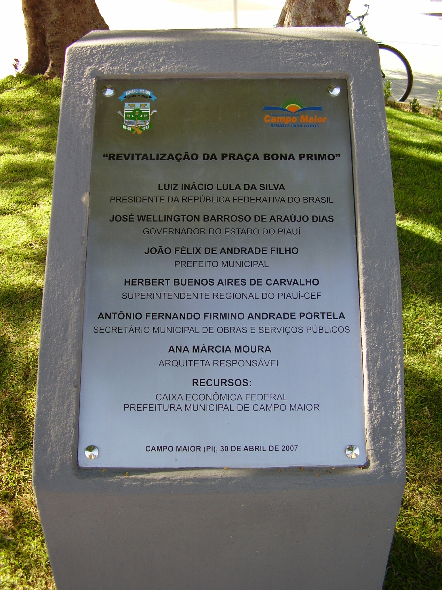 Board inauguration of reform Primo Bonn Square in Campo Maior in 2007.